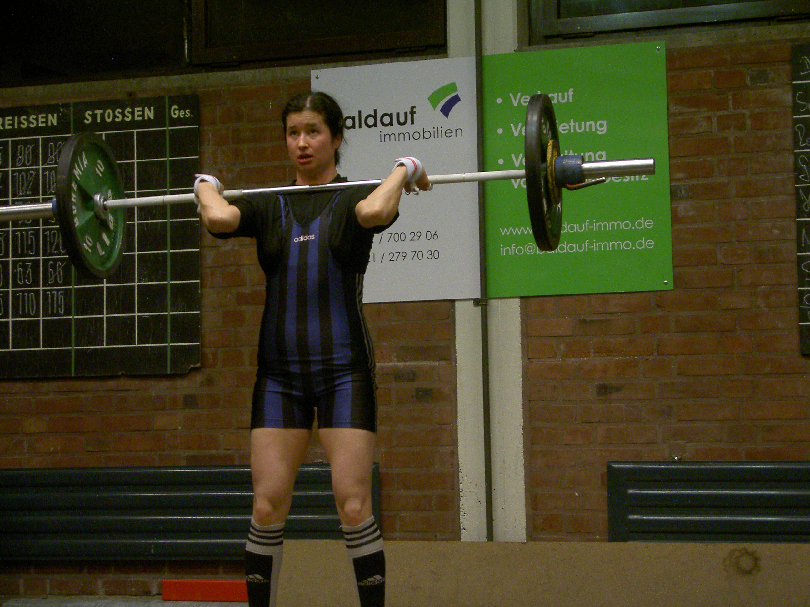 Kimiko Ishizaka competing in a weightlifting match at the Kölner AC 1882 e. V. This lift is the Clean and Jerk.